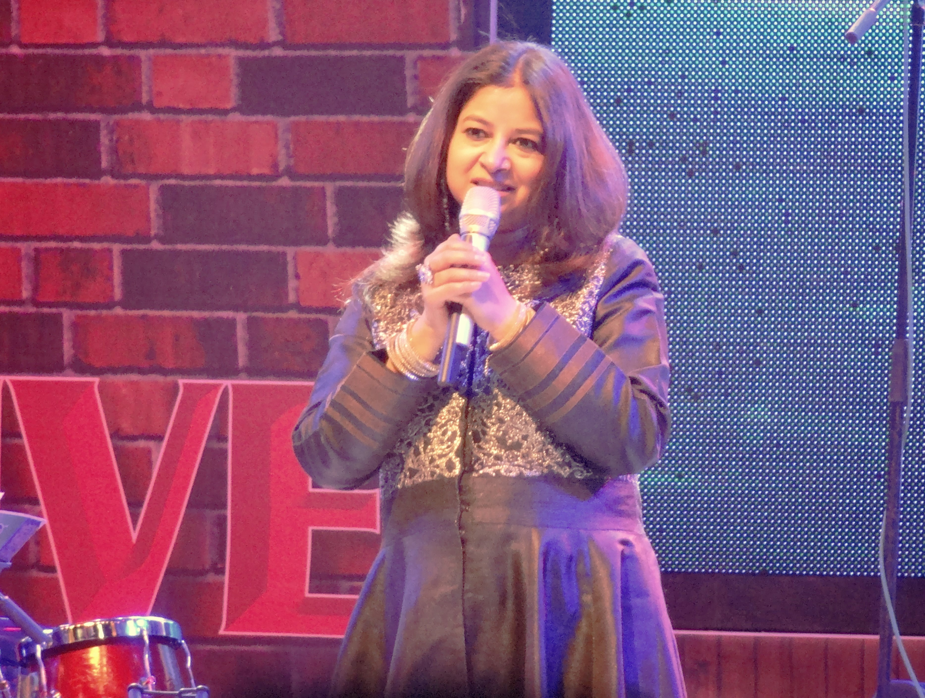 Rekha Bhardwaj performing at Alive India in Concert - Season 2, Phoenix Marketcity. Bangalore